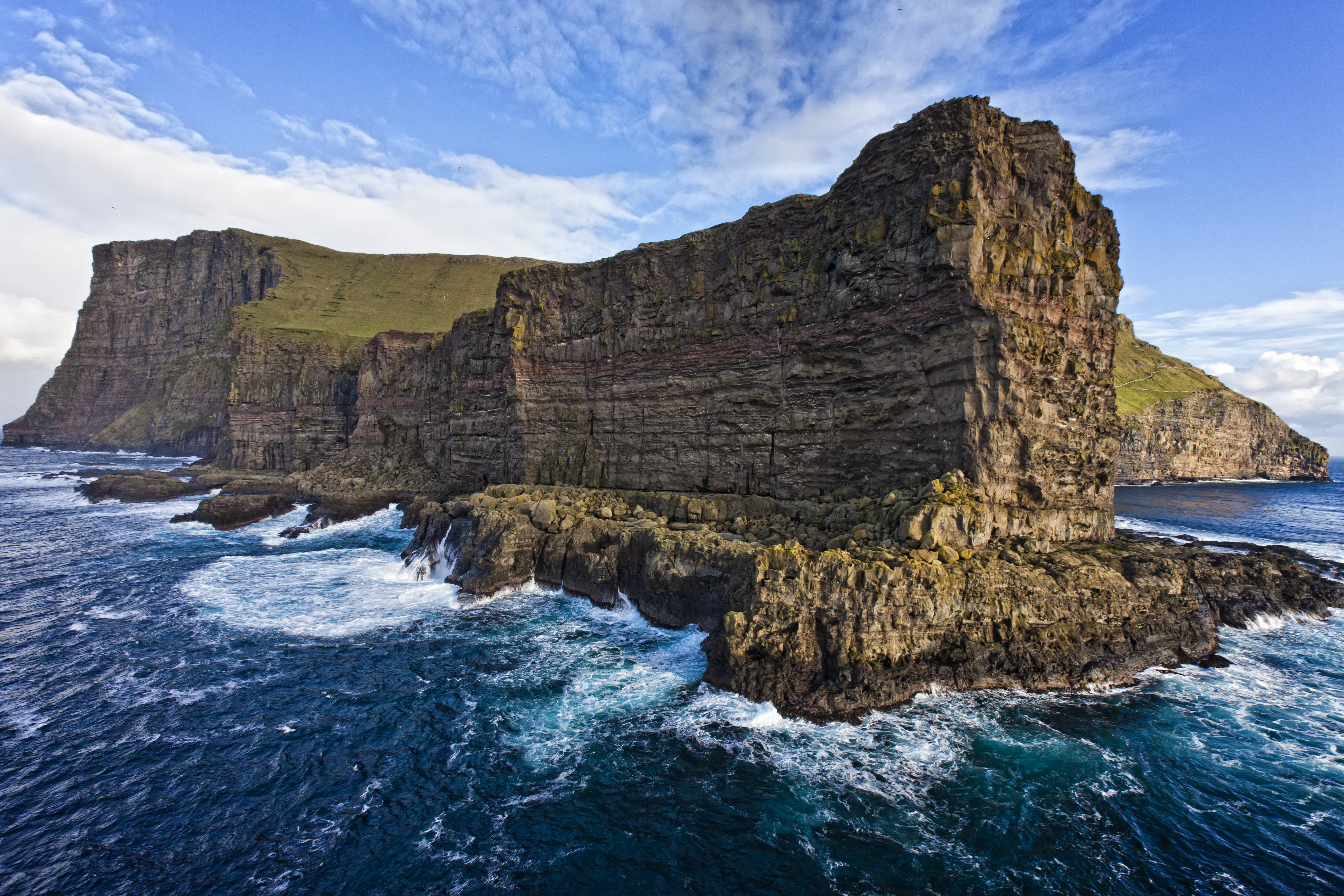 Copyright: Per Morten Abrahamsen